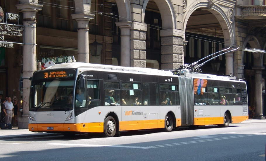 A Van Hool trolleybus in Genova, Italy, on Via XX Settembre in the city centre and headed for Sampierdarena on route 20.